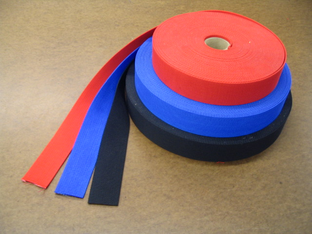 I took this picture on Friday, March 24th, 2006 and release all rights Scottanon 21:25, 24 March 2006 (UTC)